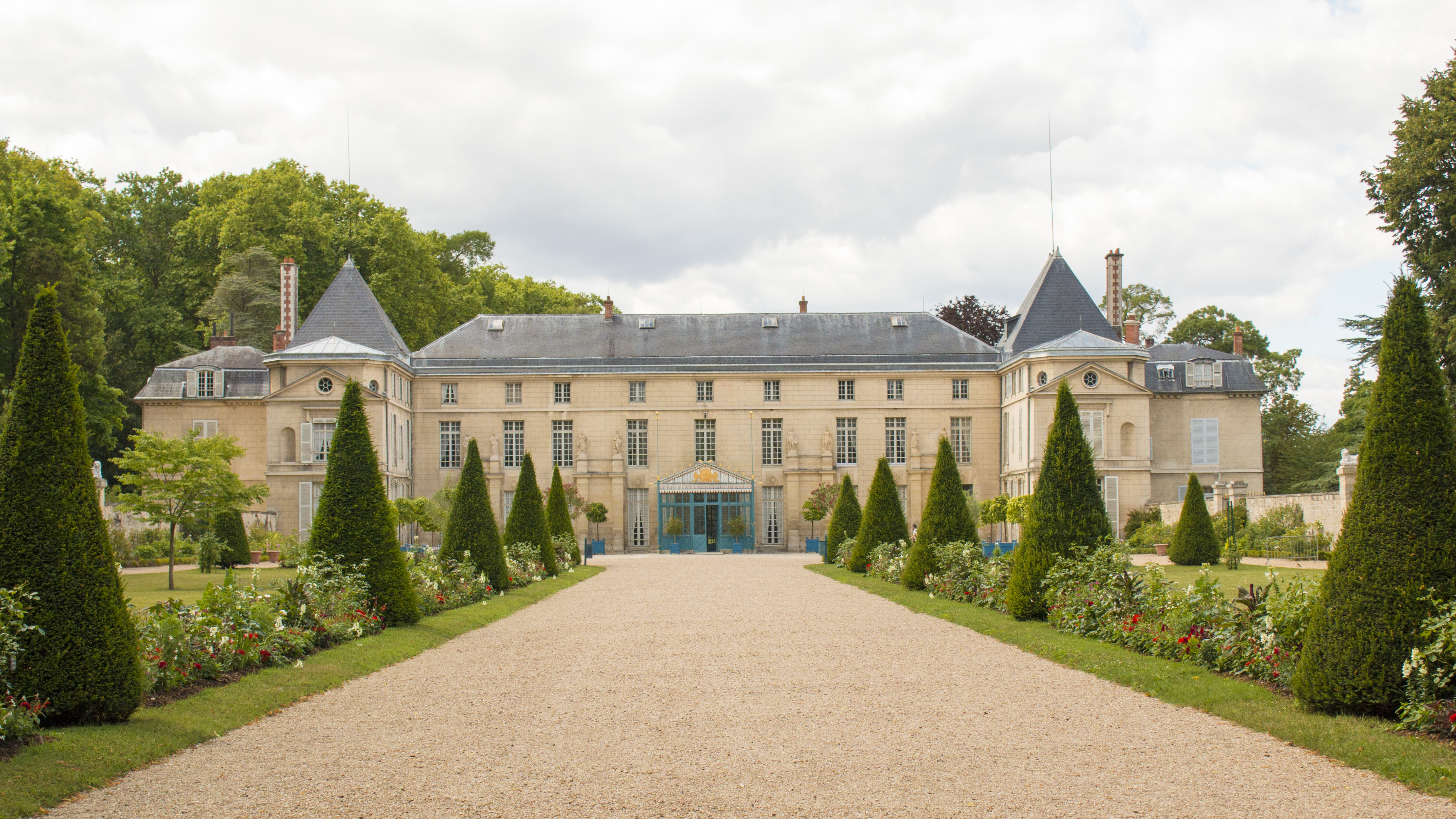 Front view of Château de Malmaison.